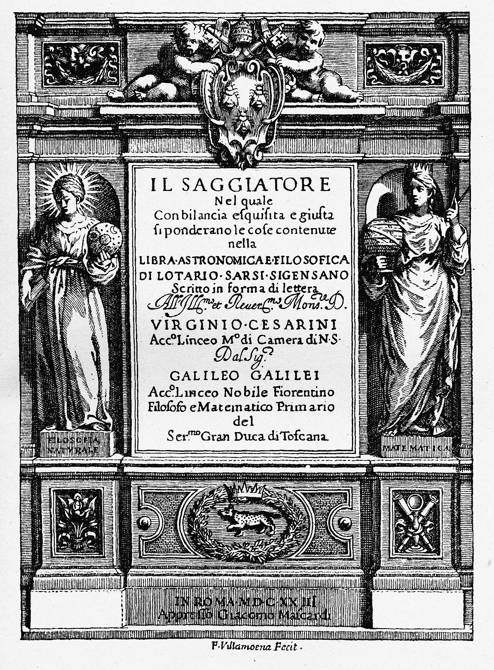 Francesco Villamena's Frontispiece for Galileo Galilei's Il Saggiatore, published by the Lincean Academy in 1623 in Rome.